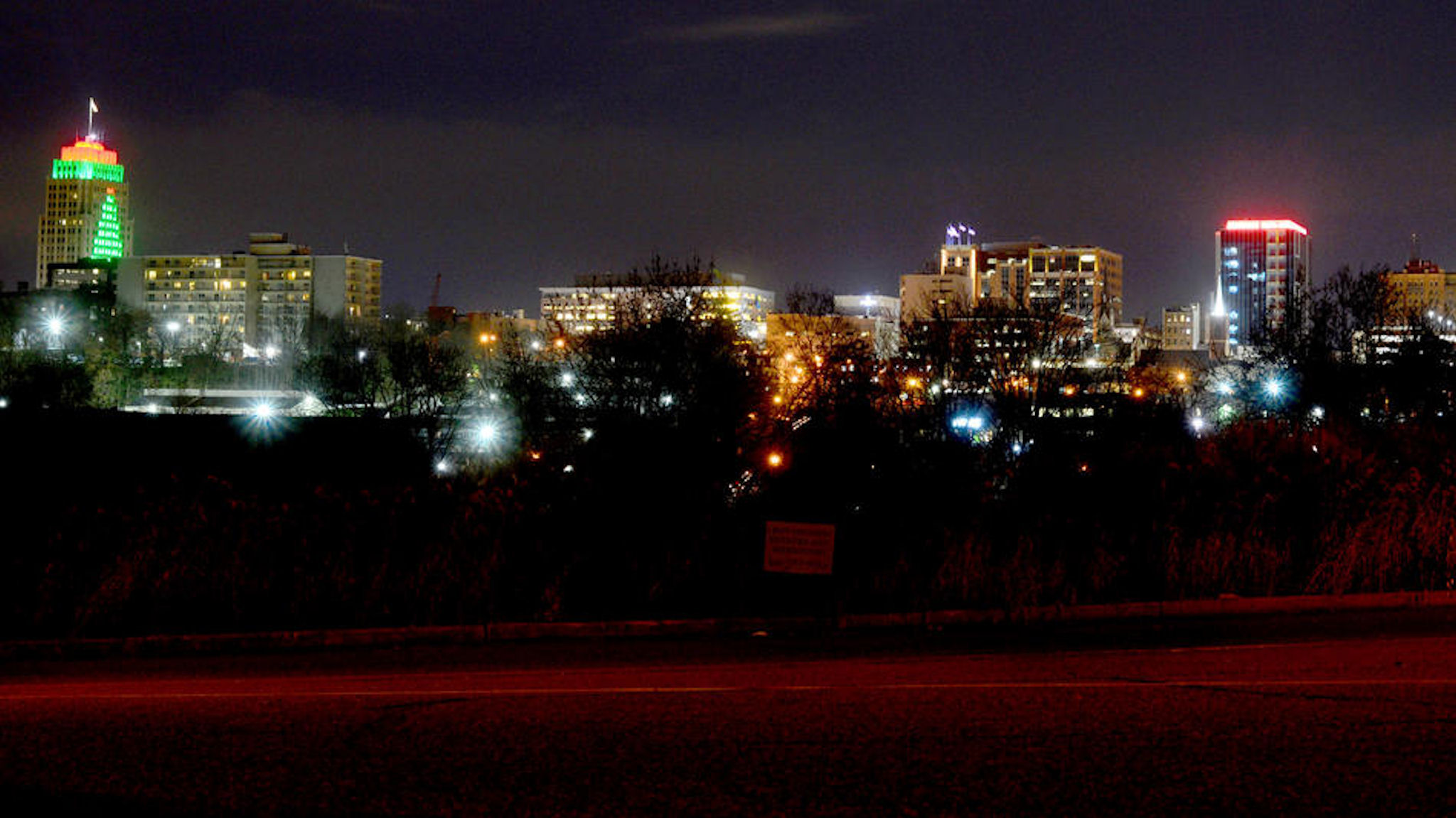 Hamilton Street Christmas Skyline - Allentown PA